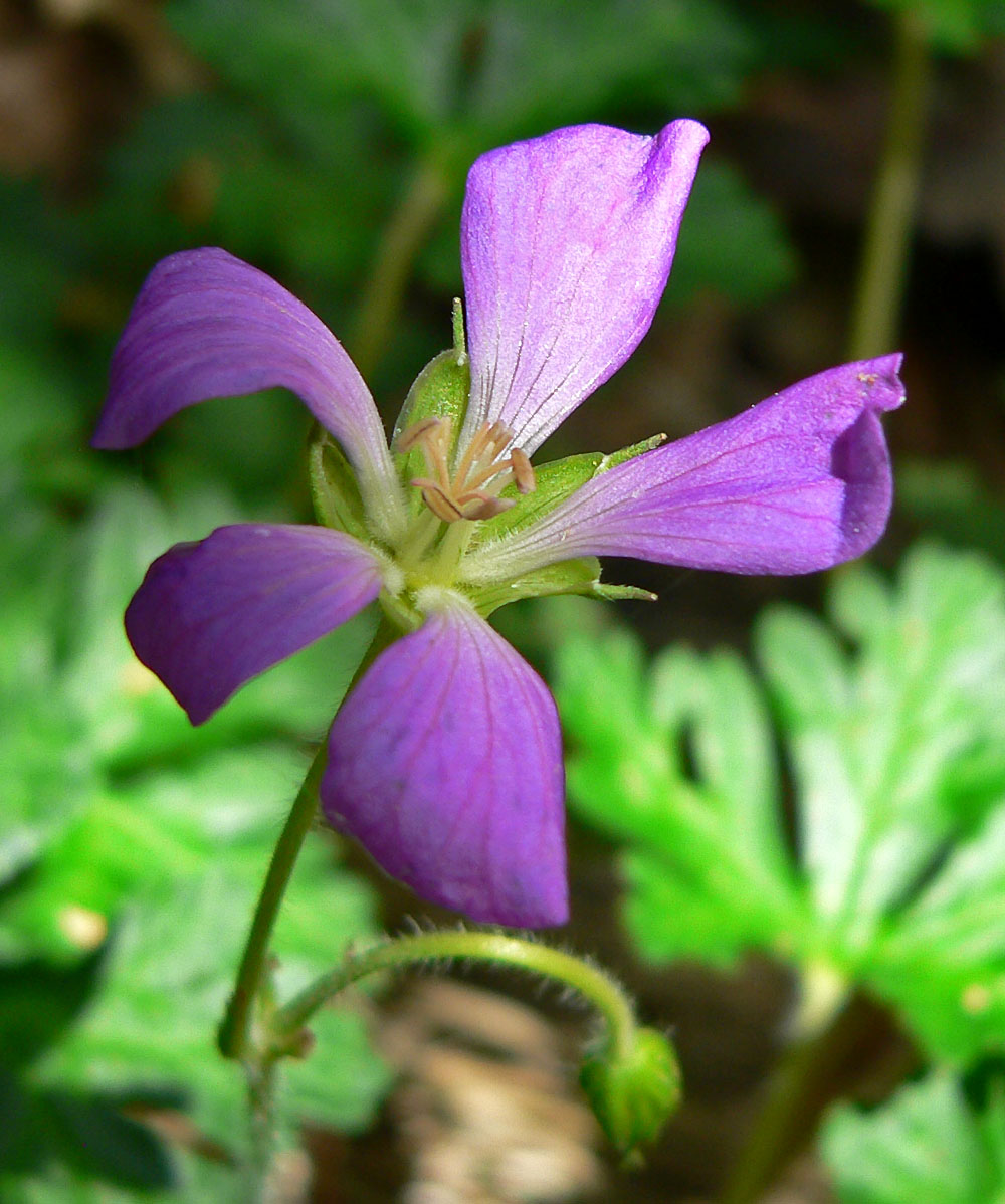 Geranium goldmannii at the University of California Botanical Garden, Berkeley, California